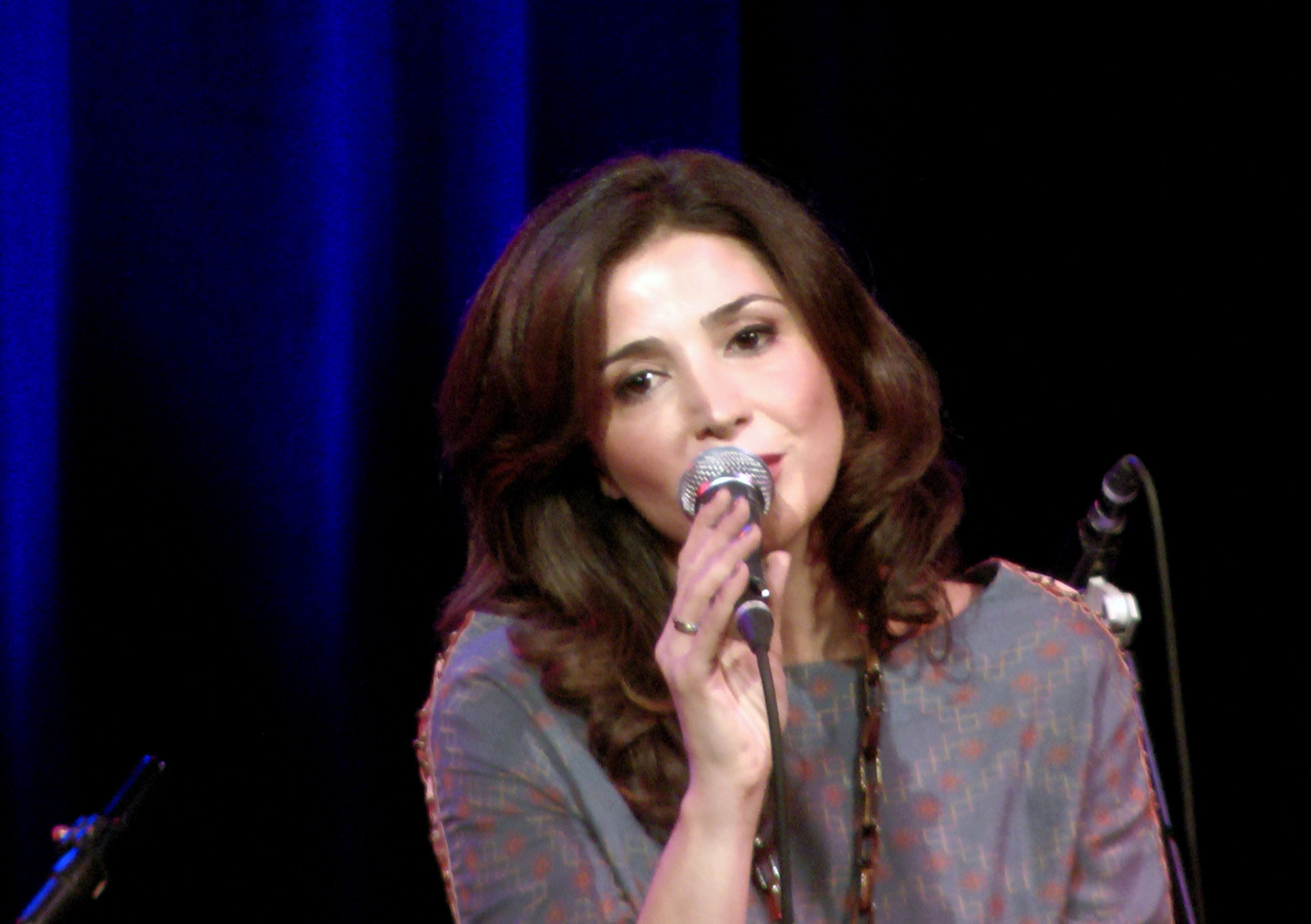 Shahrzad Sepanlou, Persian-American singer, in a concert in Amsterdam, The Netherlands, June 2013 - Photo by Pejman Akbarzadeh / Persian Dutch Network